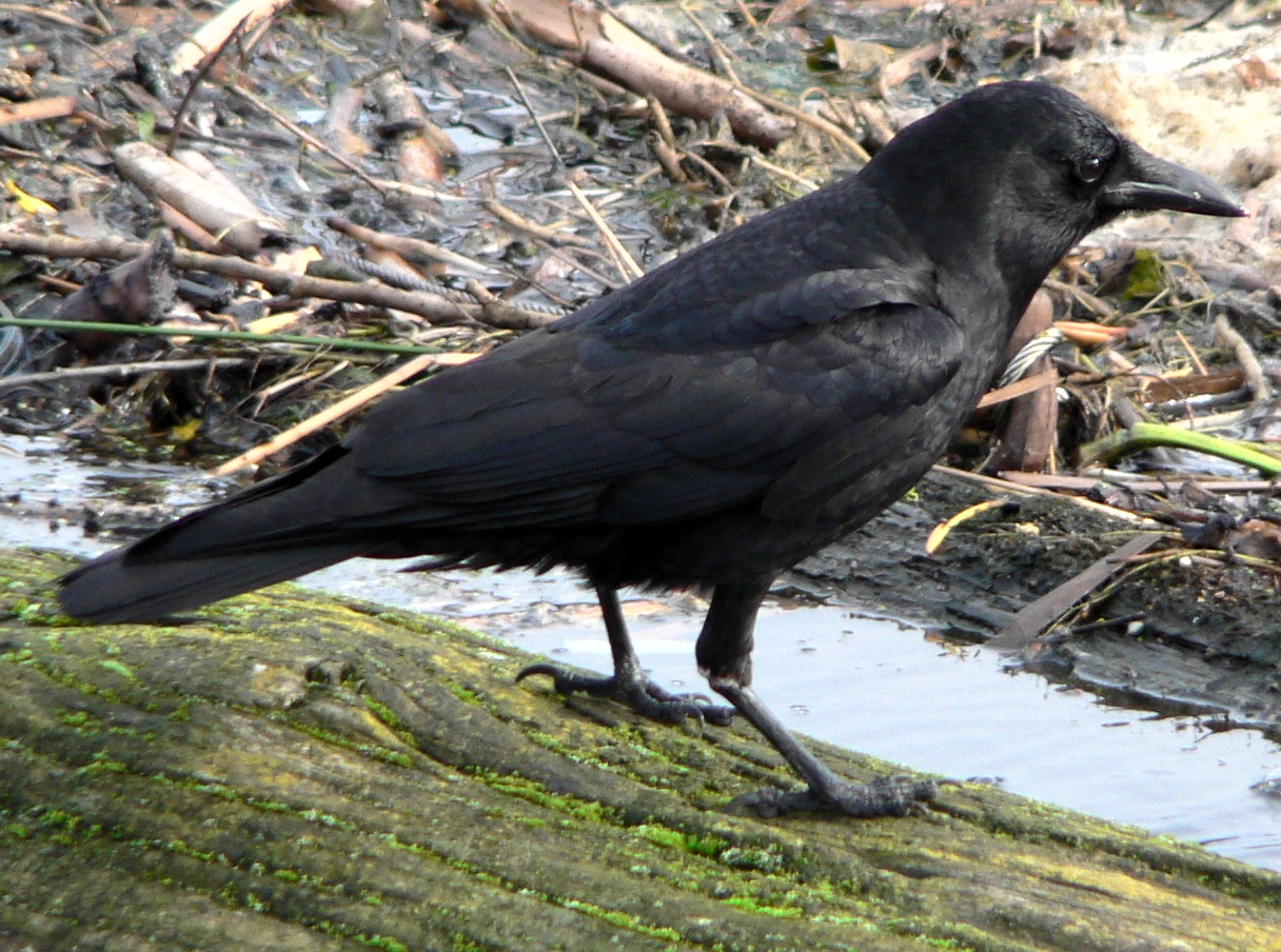 American or Northwestern Crow on the shore of Union Bay (Seattle)